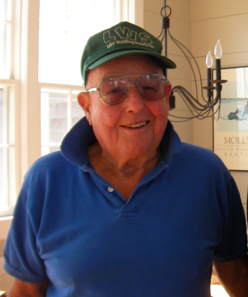 Photograph of former FDIC Chairman Bill Seidman in 2008, several months before his death. Own work.